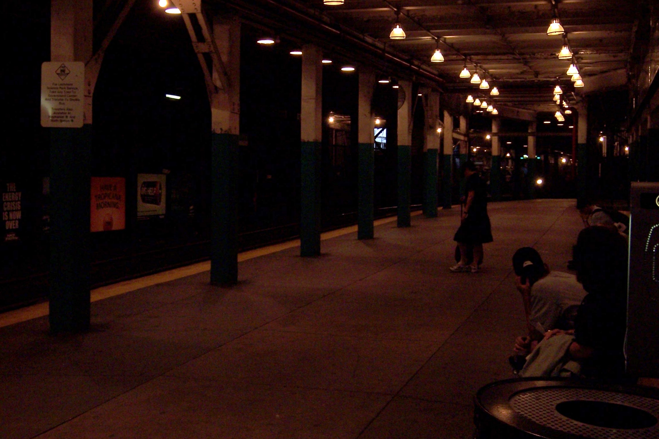 Northbound platform at Boylston station on the MBTA Green Line in 2005. This photograph is not underexposed, but rather shows how dim the station lighting formerly was.